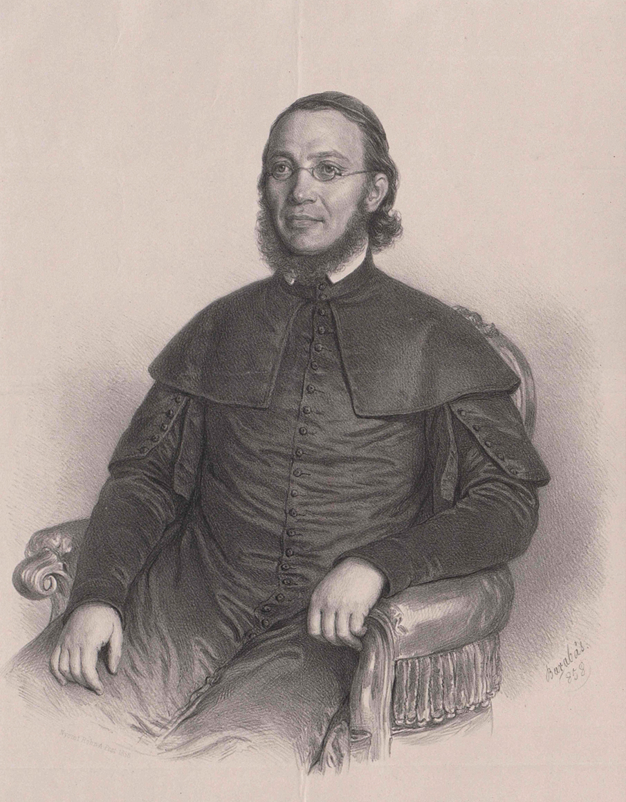 Maier Zipser (1815–1869), Rabbi in Stuhlweissenburg/Székesfehérvár and Rechnitz